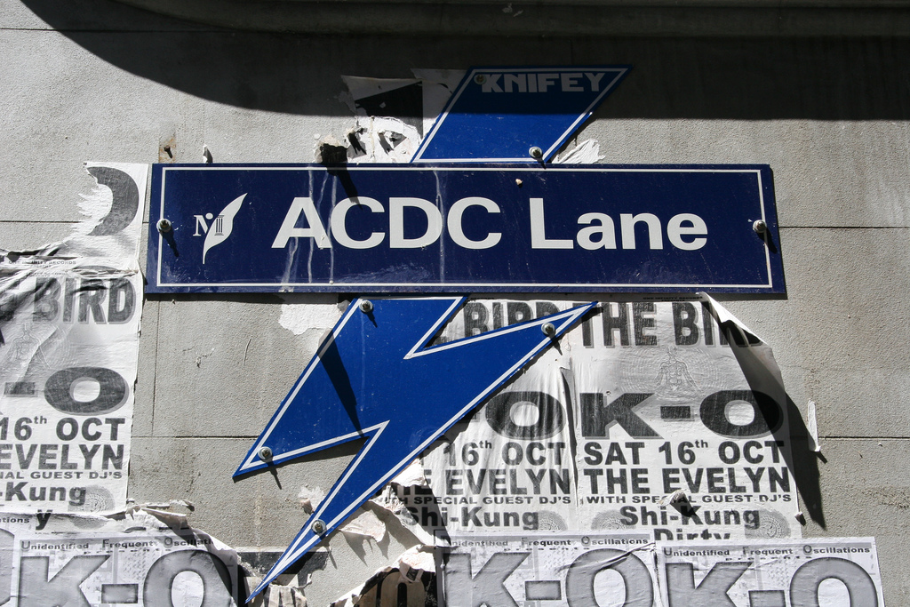 ACDC Lane, in Melbourne, Australia.